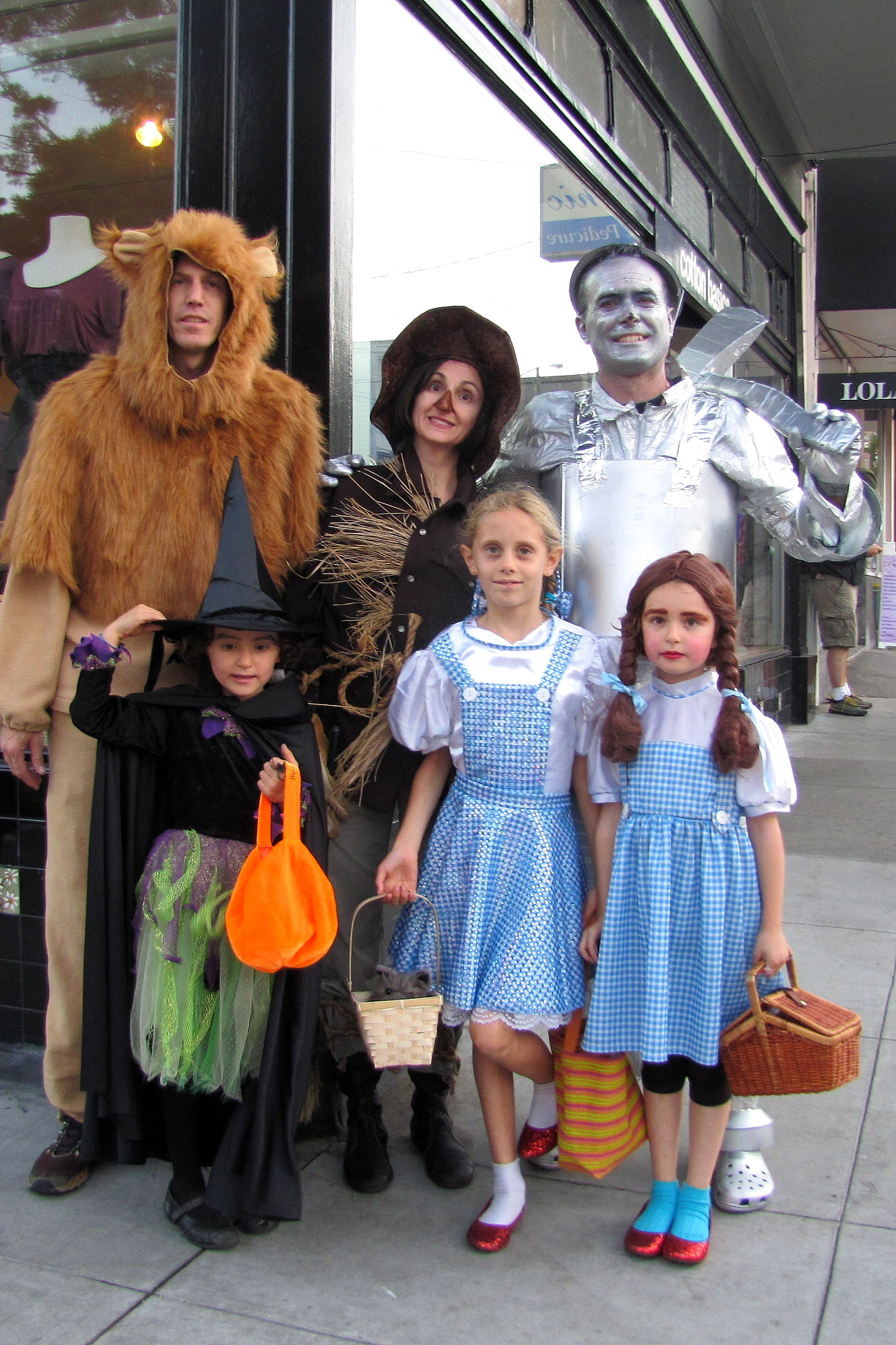 Halloween 2011 at Noe Valley, San Francisco